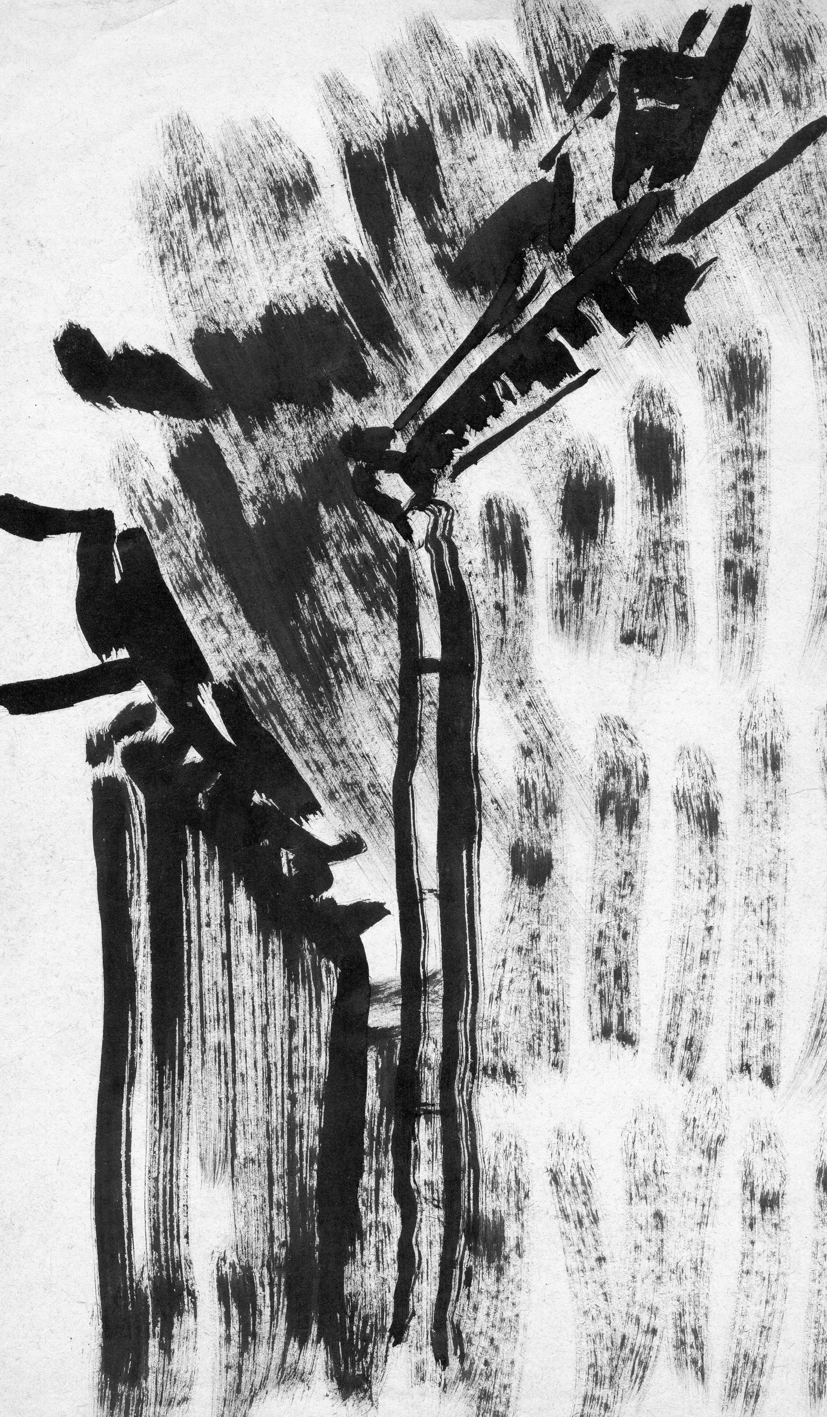 Mikhail Schultz. Storm over Vasilevskiy. Ink. 1969